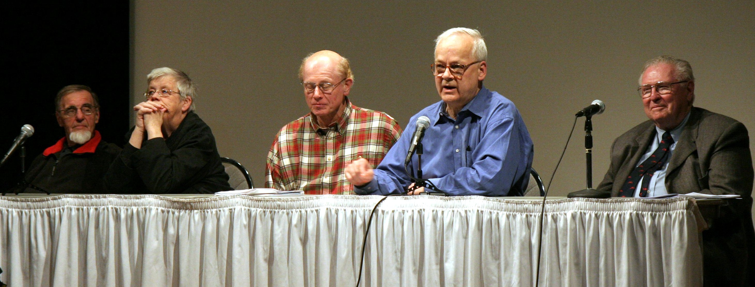 Some of the "founding faculty" at the Celebration of the 35th Anniversary of the Founding of Media Study (University at Buffalo). Woody Vasulka, Steina Vasulka, Brian Henderson, Tony Conrad, Gerald O'Grady